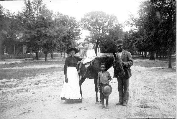 Local call number: Ha00223 Personal Author: Harper, Alvan S., 1847-1911. Title: [Winthrop children on horseback with the Merritts] Date: ca. 1890. Physical descrip: 1 glass photonegative : b&w ; 5 x 7 in. Series Title: (Alvan S. Harper collection.) General Note: L-R: Mary Merritt (nurse), Francis B. Winthrop, Guy L. Winthrop, Eddie (?), and Mathew Merritt (coachman). Repository: 500 S. Bronough St., Tallahassee, FL 32399-0250 USA. Contact: 850-245-6700. Persistent URL